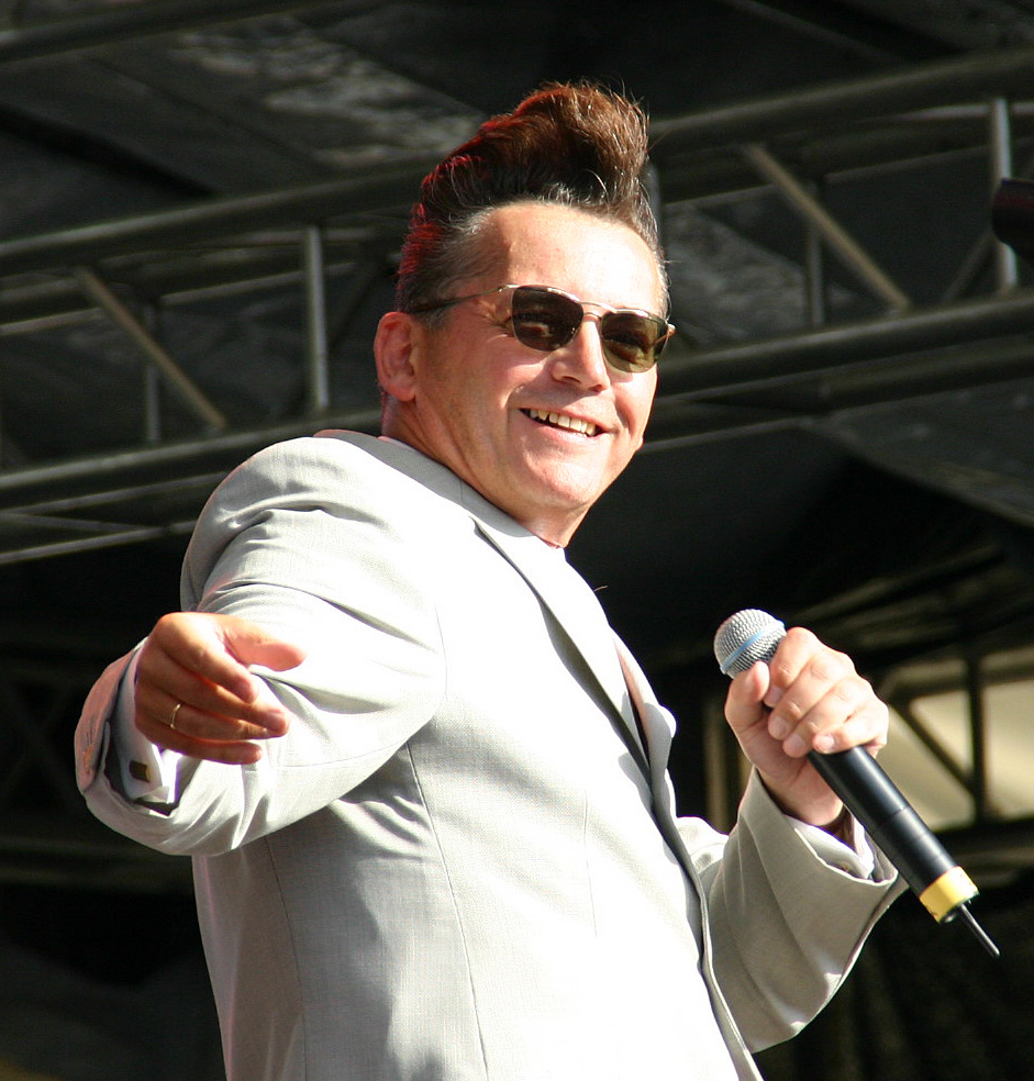 Götz Alsmann, German musician and entertainer (Cologne Ringfest 2005, WDR4 stage.)